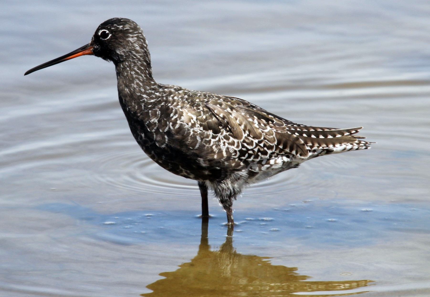 Spotted Redshank in breeding plumage (Tringa erythropus)